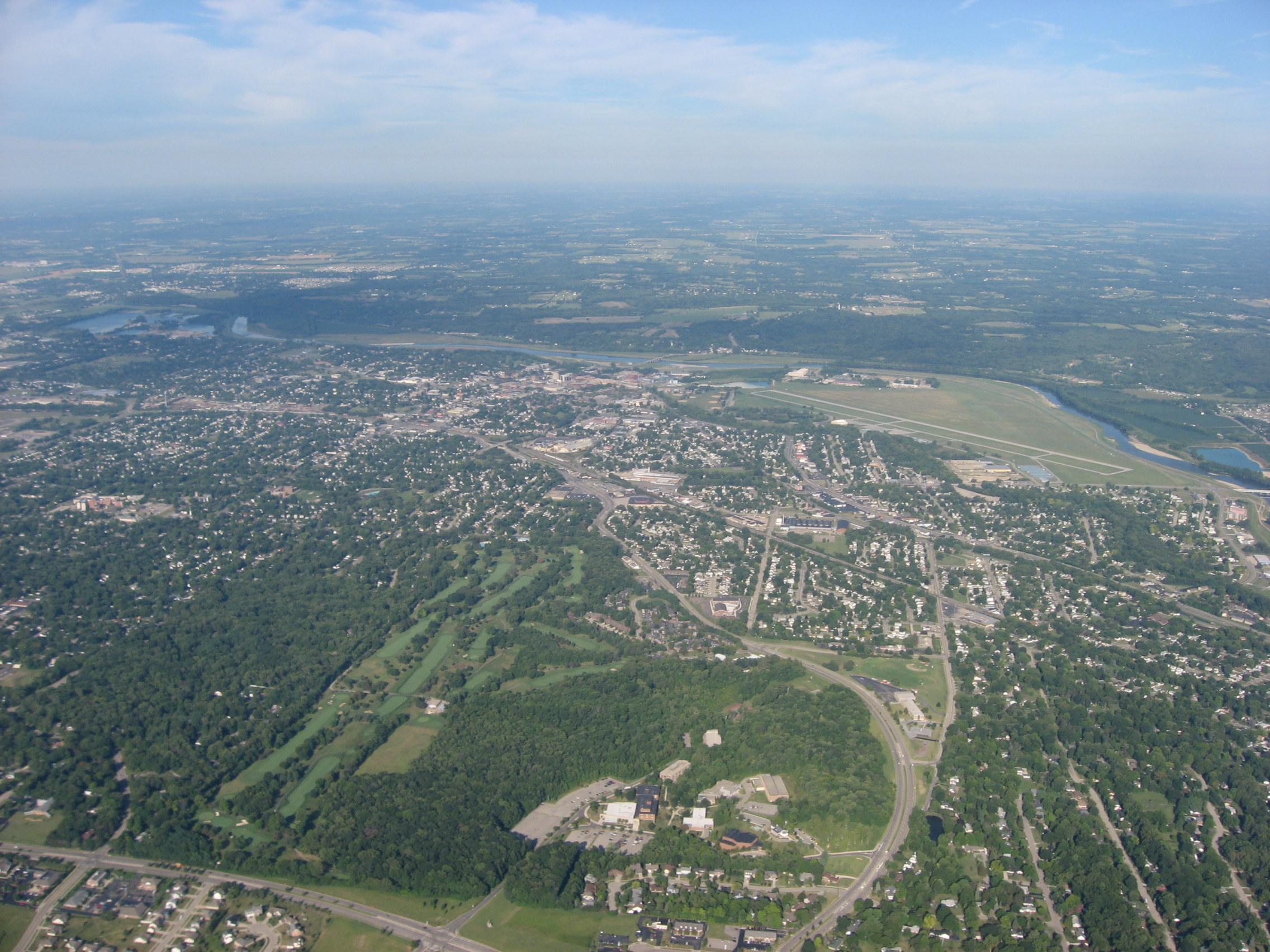 Aerial view of Middletown, a city in Butler and Warren counties in the southeastern part of the U.S. state of Ohio. Hook Field is visible along the Great Miami River on the right side of the picture. Picture taken from a Diamond Eclipse light airplane at an altitude of 3,900 feet MSL and a bearing of approximately 265º.